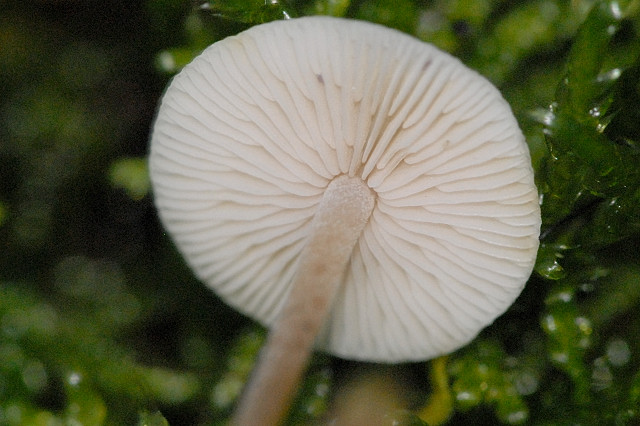 Hemimycena lactea from Commanster, Belgium. If you think this is a different taxon, please contact James Lindsey.